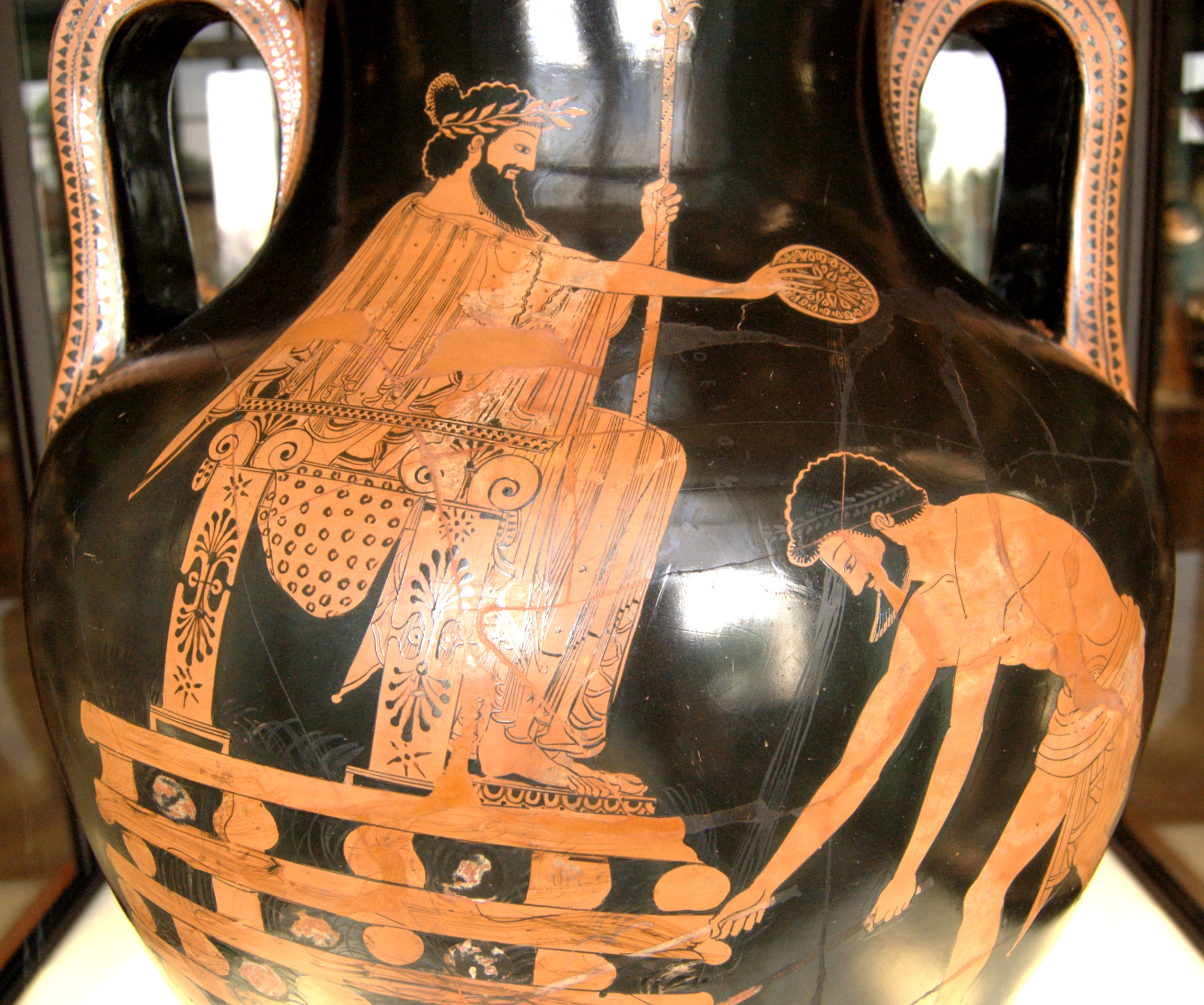 Croesus at the stake. Side A from an Attic red-figure amphora, ca. 500–490 BC. From Vulci.